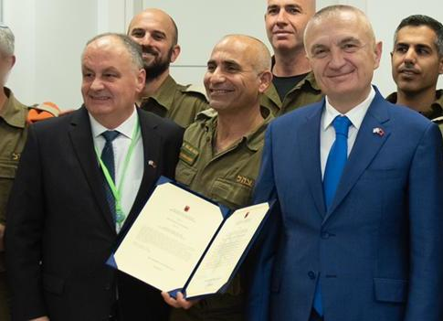 Albanian Republic President Ilir Meta's visit to the Homefront Command of Israel.